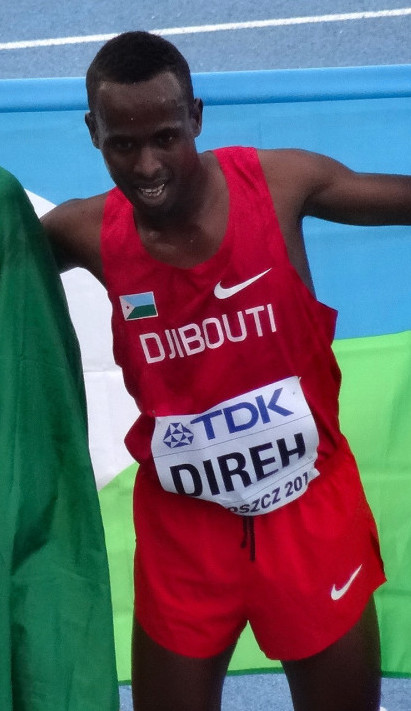 2016 IAAF World U20 Championships in Bydgoszcz, 5000m men final